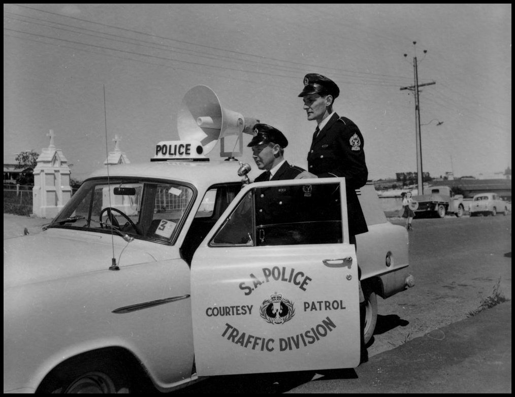 S.A. Police Traffic Division Courtesy Patrol in 1959.